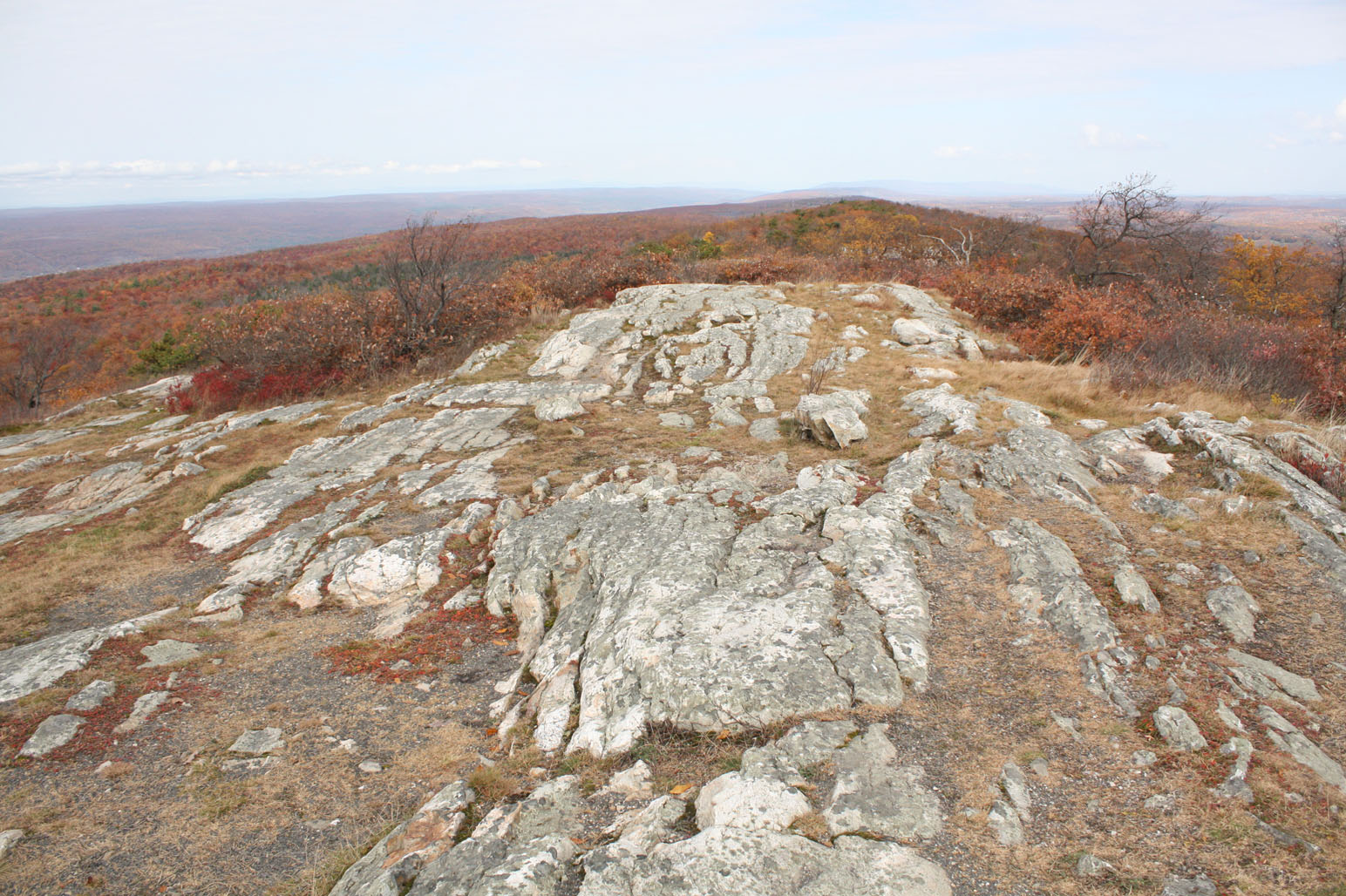 Outcrop of Silurian Shawangunk Formation (rock in foreground) at crest of Kittatinny Mountains in High Point State Park, New Jersey. Facing northeast.